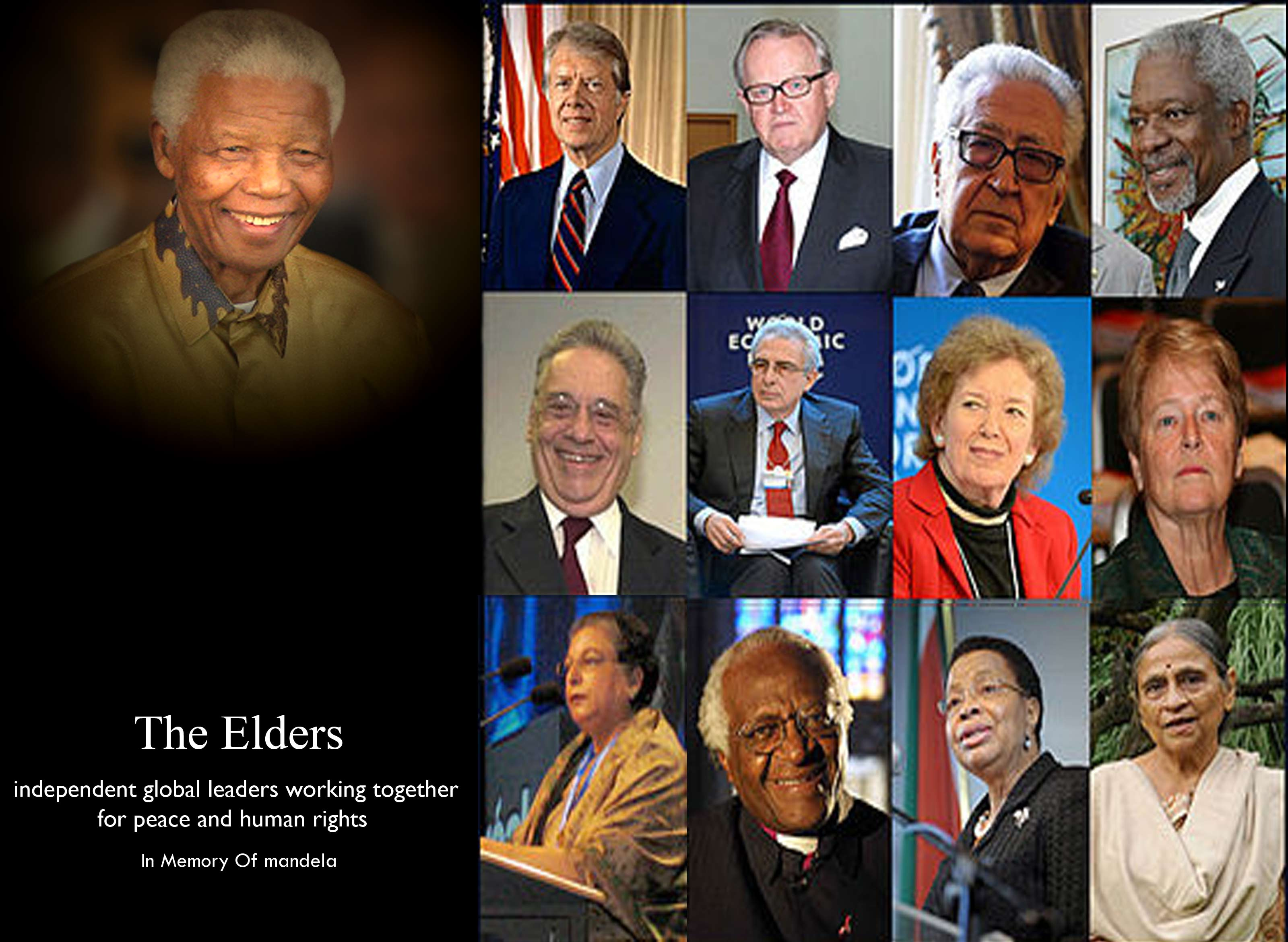 Montage of The Elders